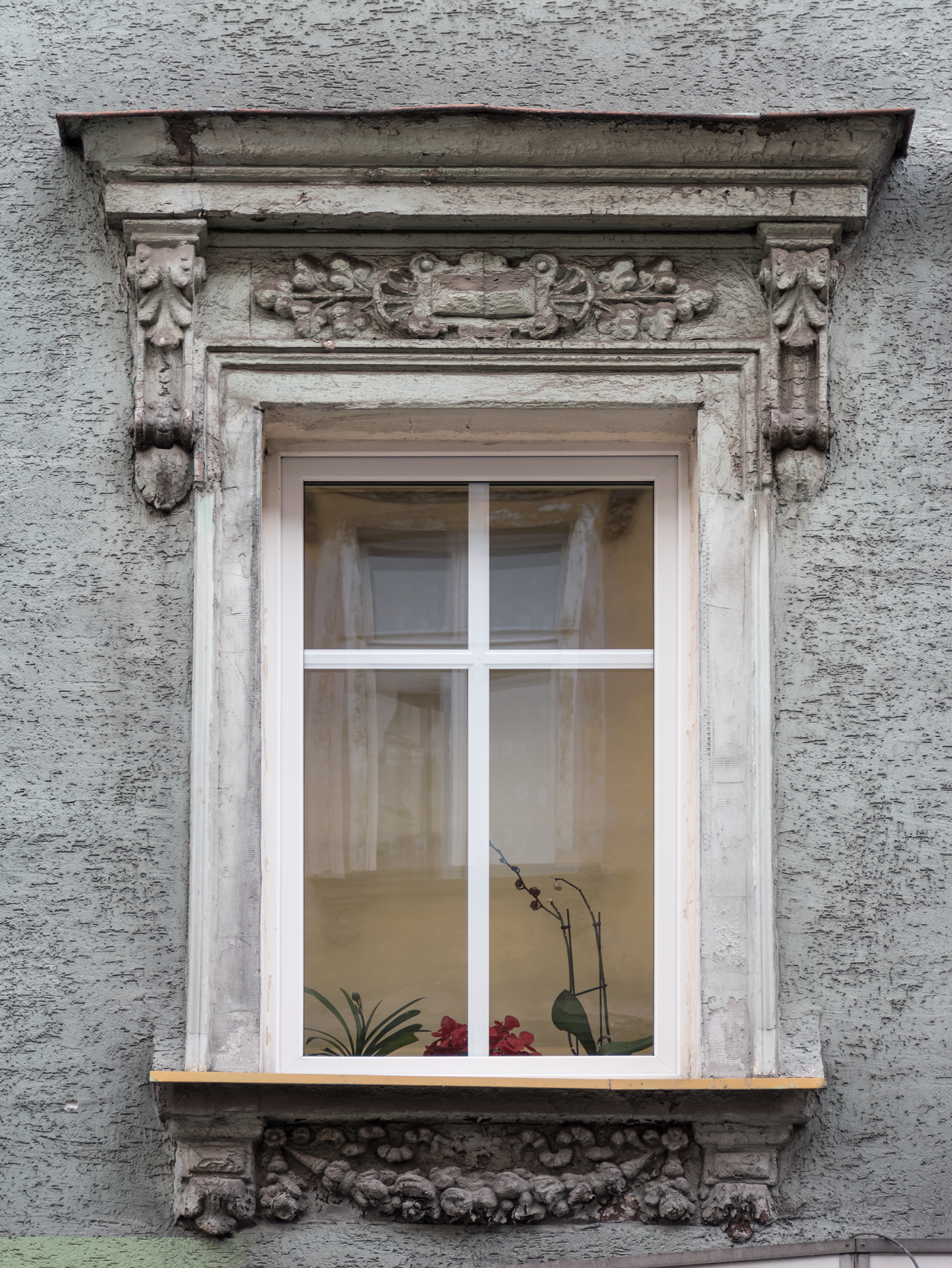 19 Piastów Street in Nowa Ruda